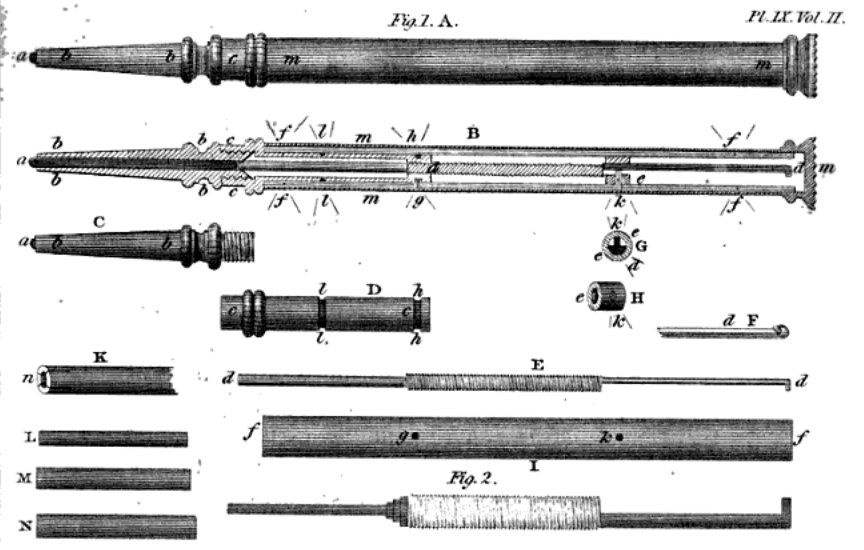 Detail of the specification of the patent granted in december 1822 to Sampson Mordan and John Hawkins, for improvements on pencil-holders